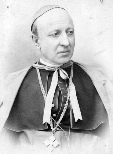 Italian cardinal Antonio Agliardi (1832-1915).